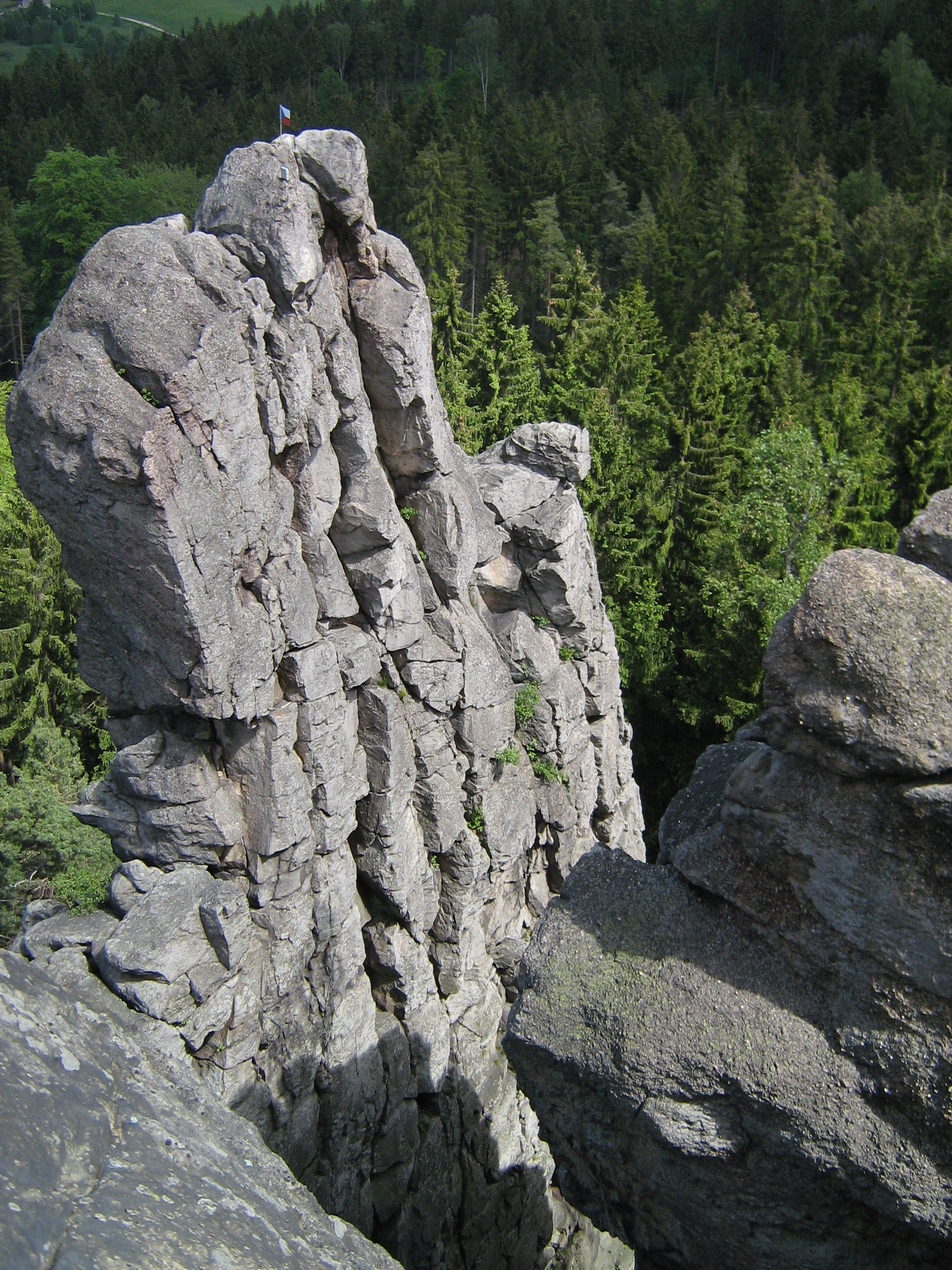 The Rock Fellerwand in the Rabensteinen in the Lusatian mountains.